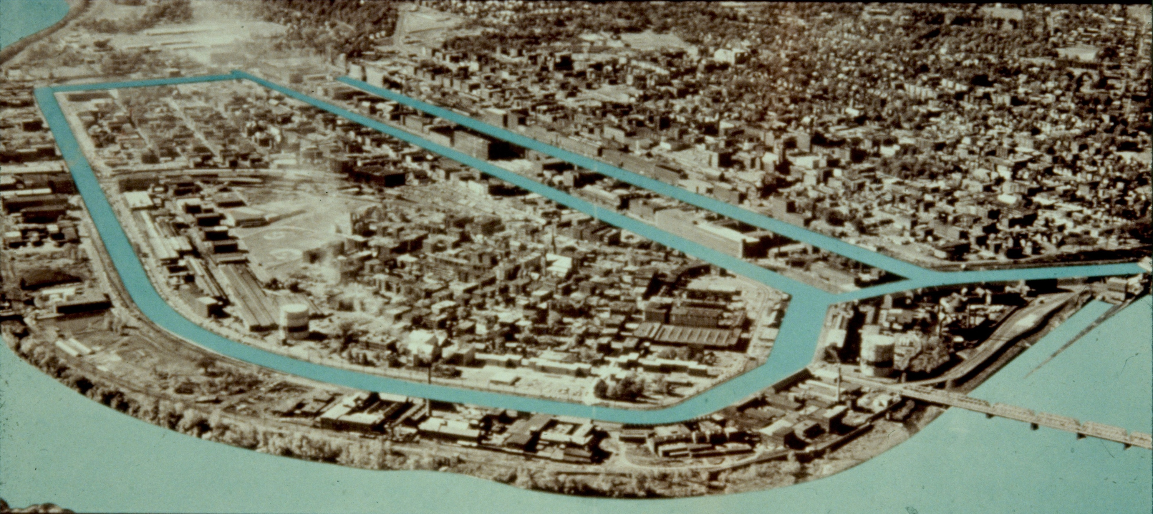 An aerial photographic diagram of the Holyoke Canal System, showing parts of The Flats, South Holyoke, and Downtown, as well as the former County Bridge eventually replaced by the Vietnam Memorial Bridge in the early 1990s.